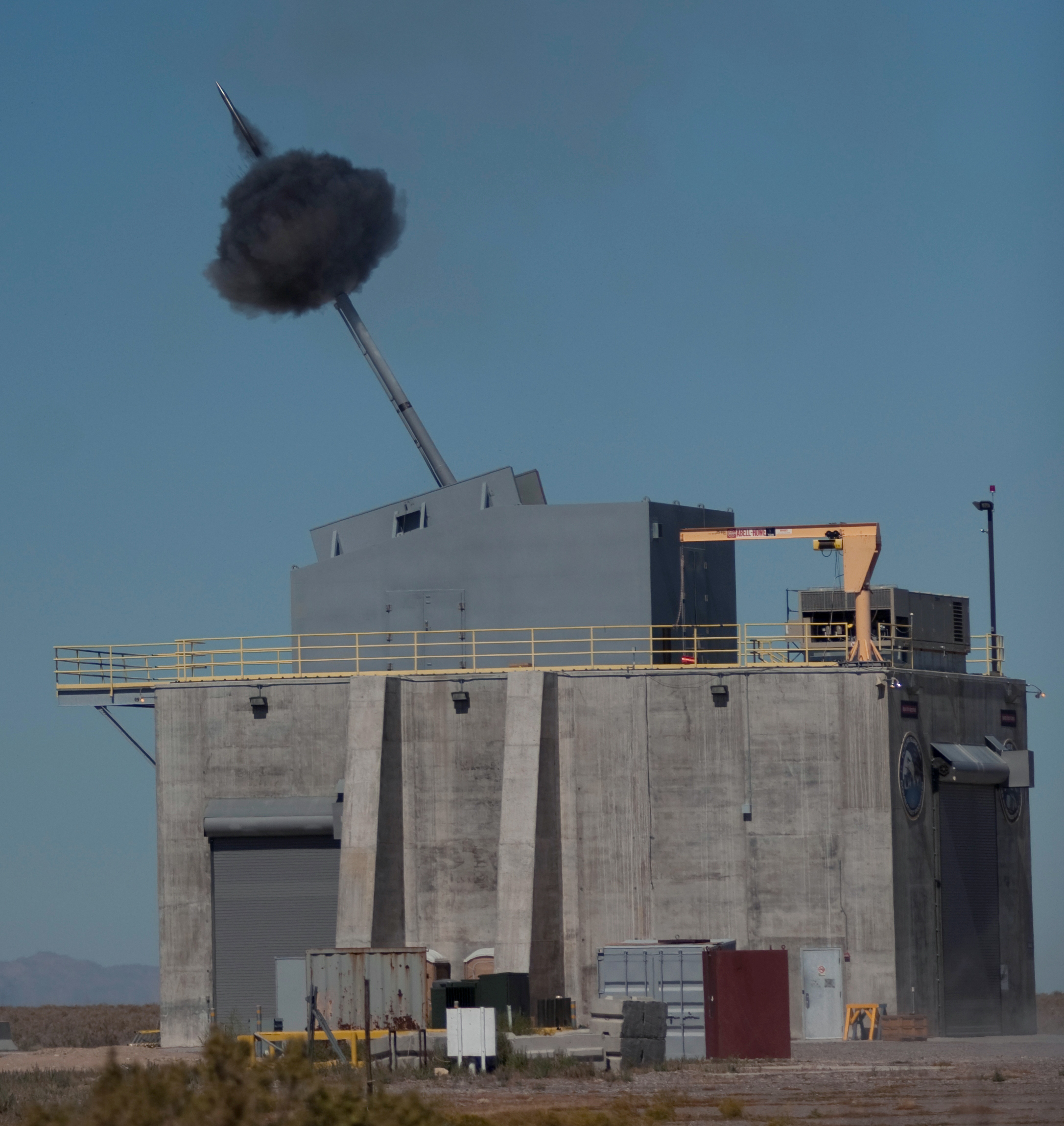 DUGWAY PROVING GROUND, Utah (Sept. 16, 2009) The Office of Naval Research's Advanced Gun Barrel Technology Program demonstrates a new coating to extend 155-mm barrel life during a test demonstration at Dugway Proving Ground, Utah. (U.S. Navy photo by Ken Tillges/Released)